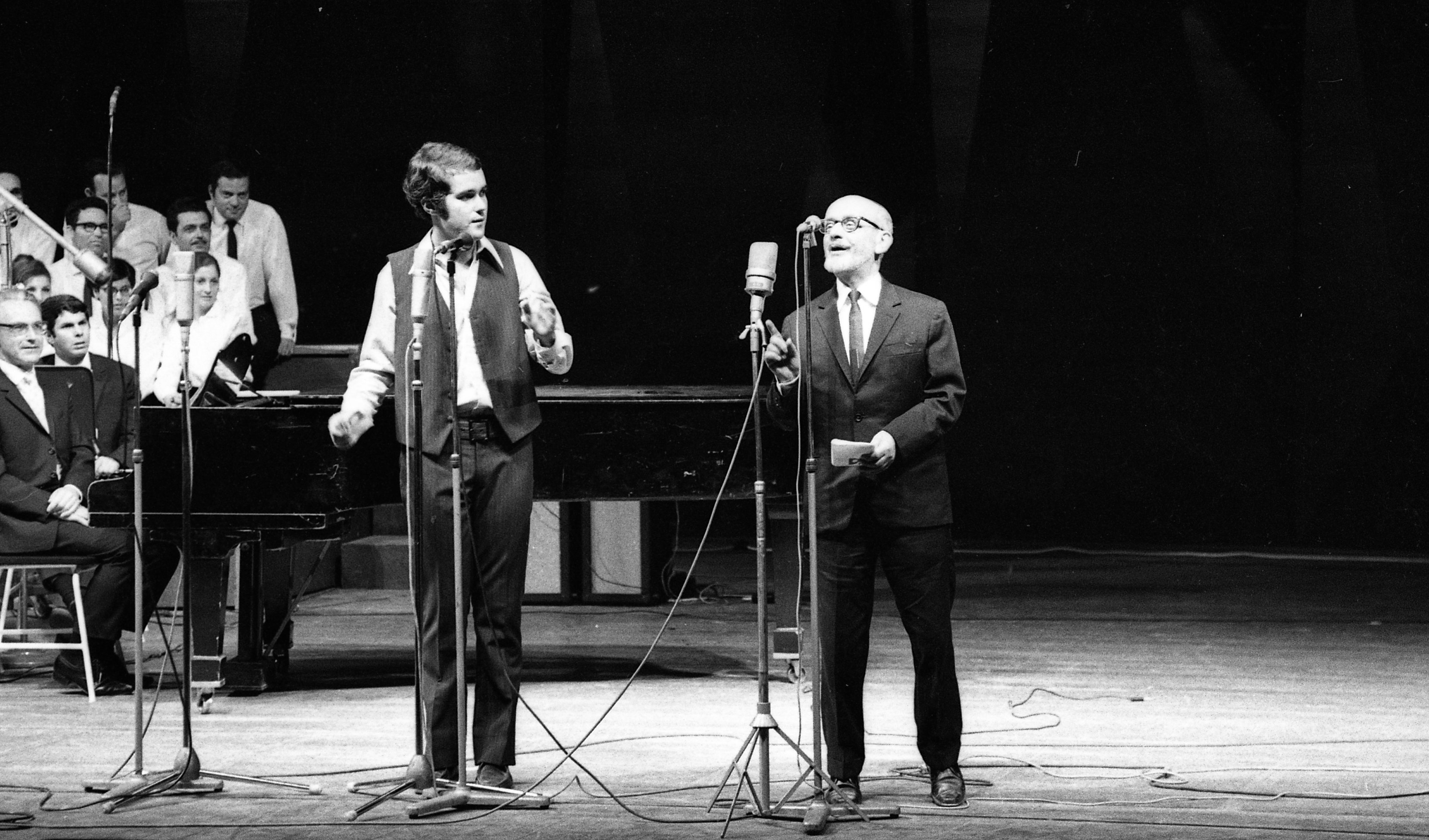 The First Hasidic Festival.